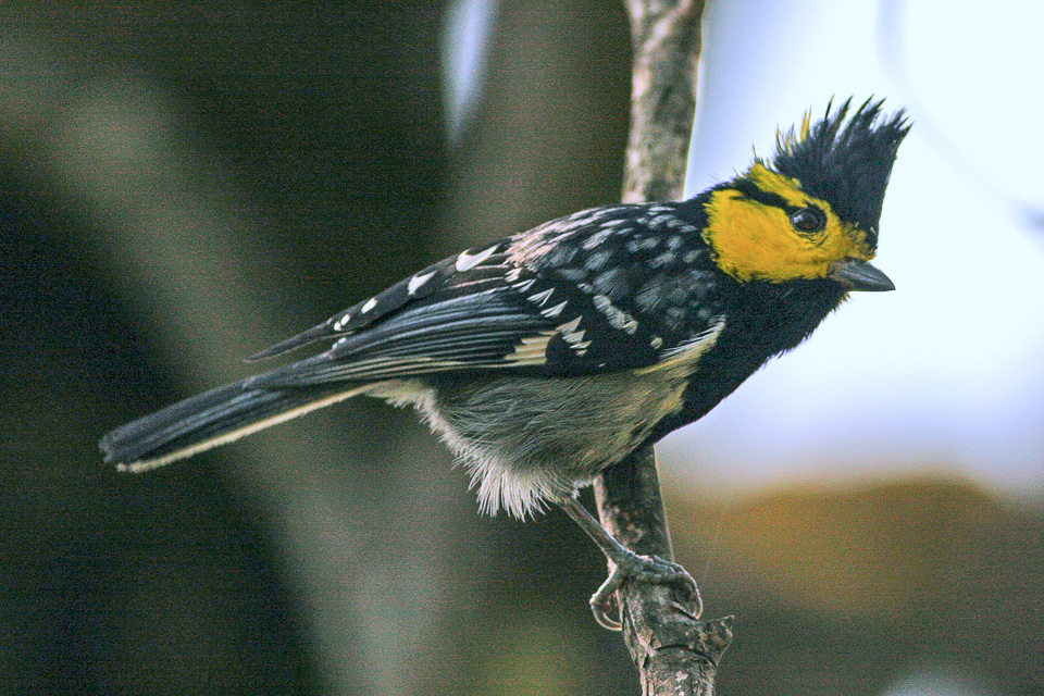 Yellow-cheeked Tit (Parus spilonotus) at Wuyi National Park, Huangang Shan, Jiangxi